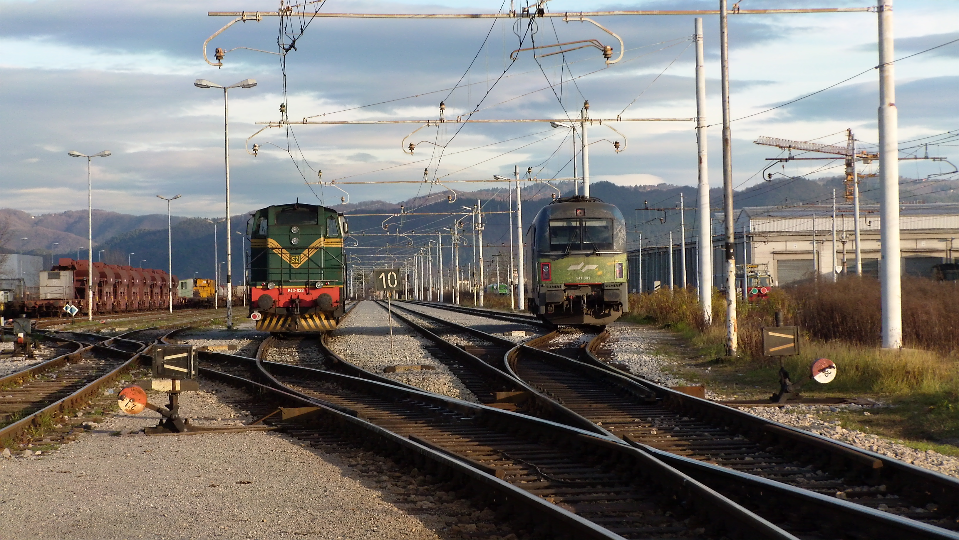 Train tracks and depots in Ljubljana - Zalog, Slovenia.